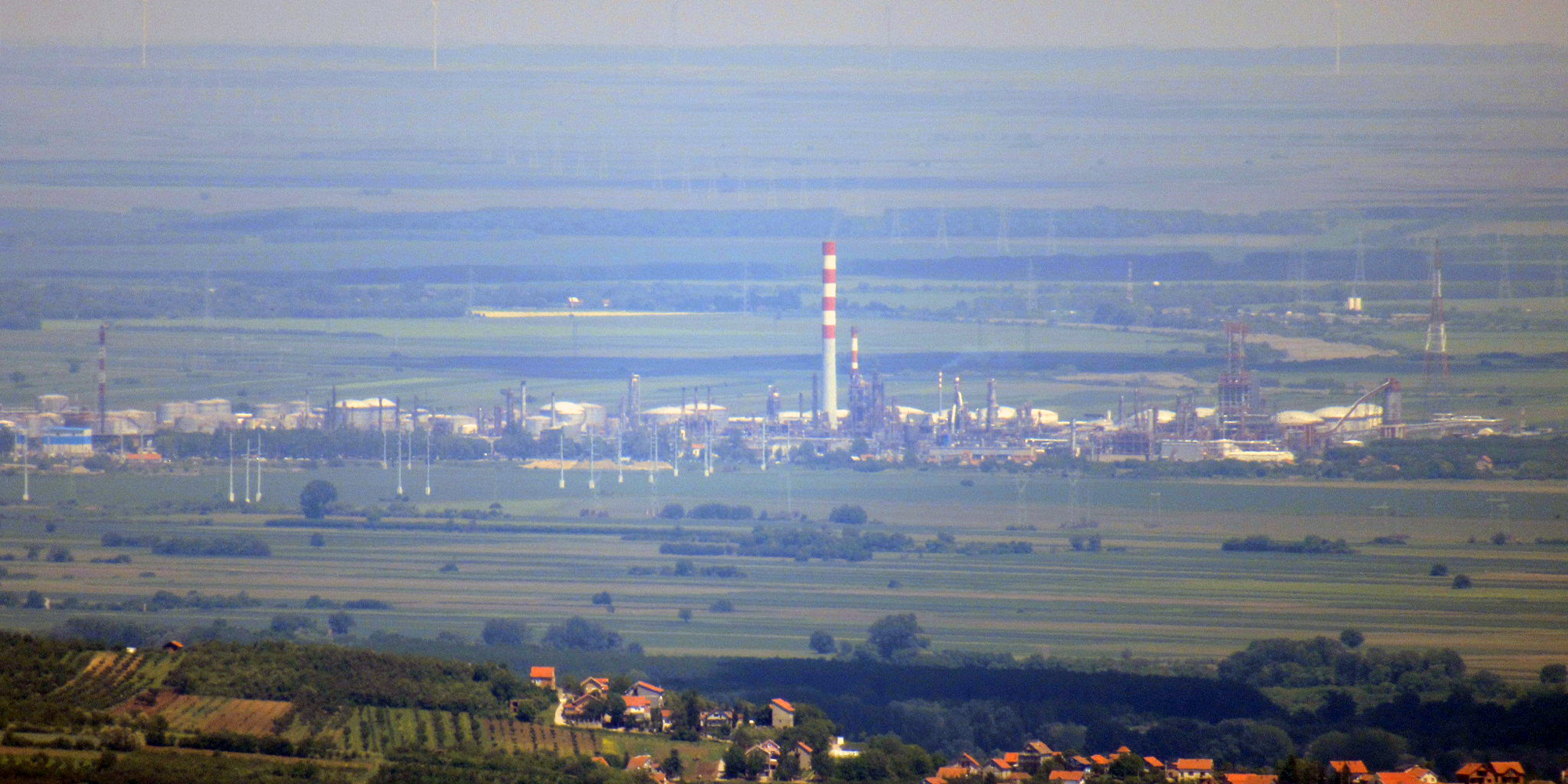 Oil refinery in Pančevo